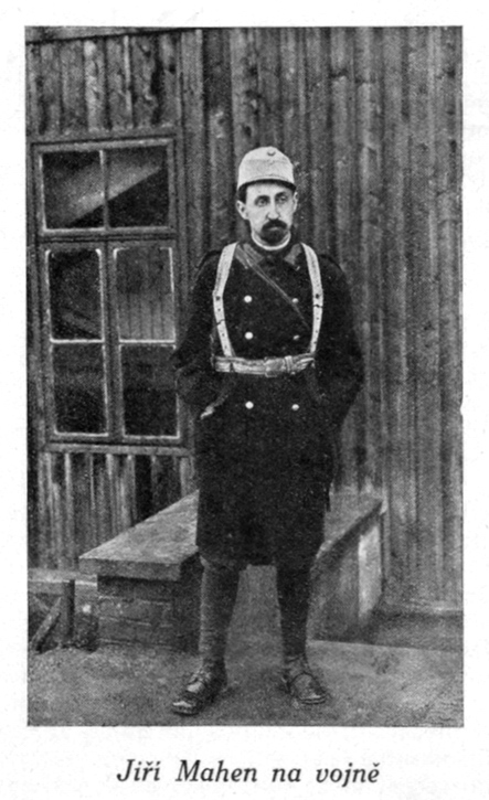 Jiří Mahen (1882–1939), Czech writer, playwright and essayist. Photo from WWI - 1915 or 1916